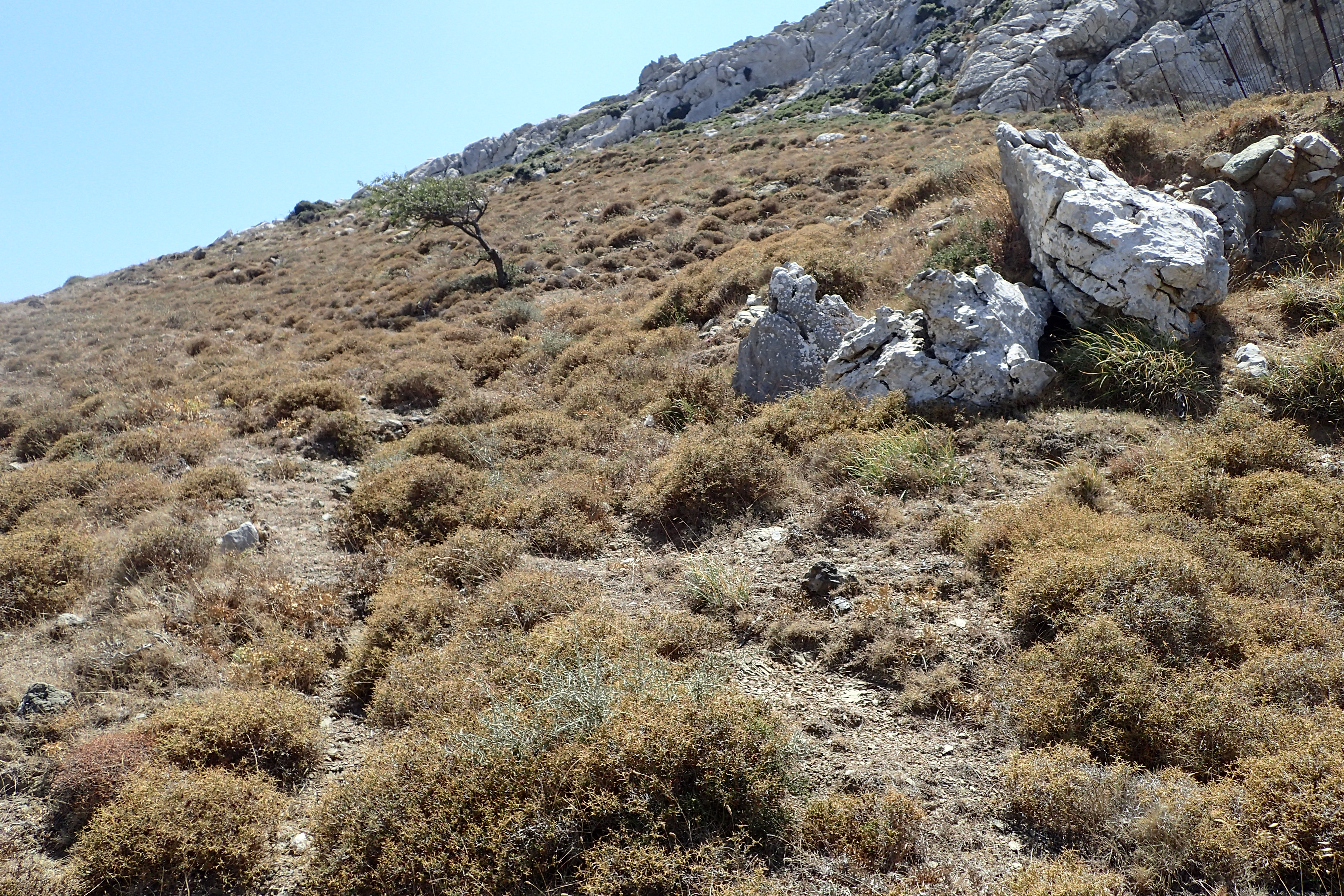 Thymbra capitata in Drimiskos, Crete, Greece